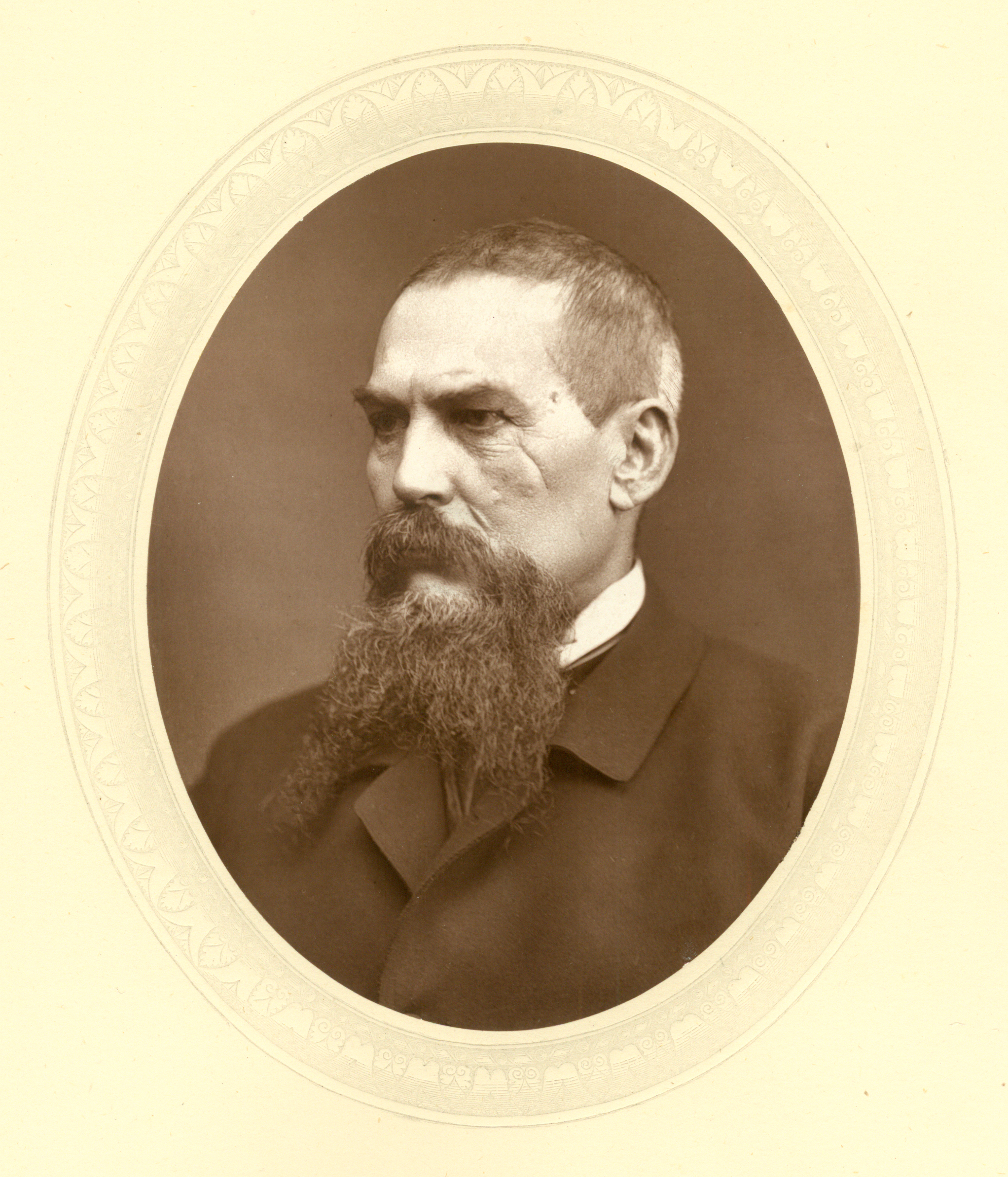 Undated photograph of Burton, from Men of Mark (London, 1876). In his upper cheek the scar from a spear point driven through his face during a skirmish with Somali tribesmen in 1854.